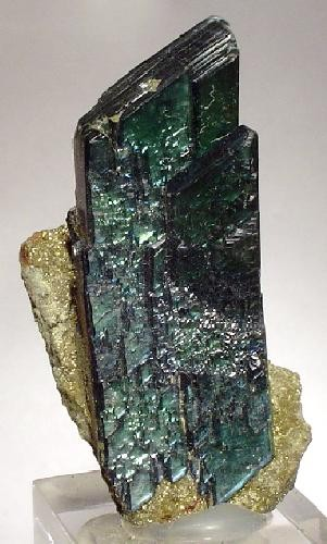 Vivianite, Childrenite Locality: Siglo Veinte Mine (Siglo XX Mine; Llallagua Mine; Catavi), Llallagua, Rafael Bustillo Province, Potosí Department, Bolivia (Locality at ) Size: 4.7 x 2.5 x 2.0 cm. A lustrous, sharp, teal-green vivianite blade aesthetically set on matrix covered with tiny childrenite crystals from the famous Siglo XX Mine of Brazil. Choice material from the Marty Lewadny Collection of Winnipeg, Canada.